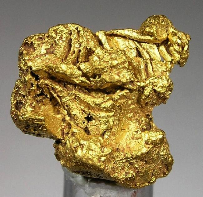 Gold Locality: Majuba placer, Antelope District, Pershing County, Nevada, USA (Locality at ) Size: thumbnail, 1.3 x 1.2 x .6 cm Gold Very bright and lustrous skeletal Gold crystal that had maintained some of its crystal form , and traces of what were once cubic crystals. A very dramatic thumb.